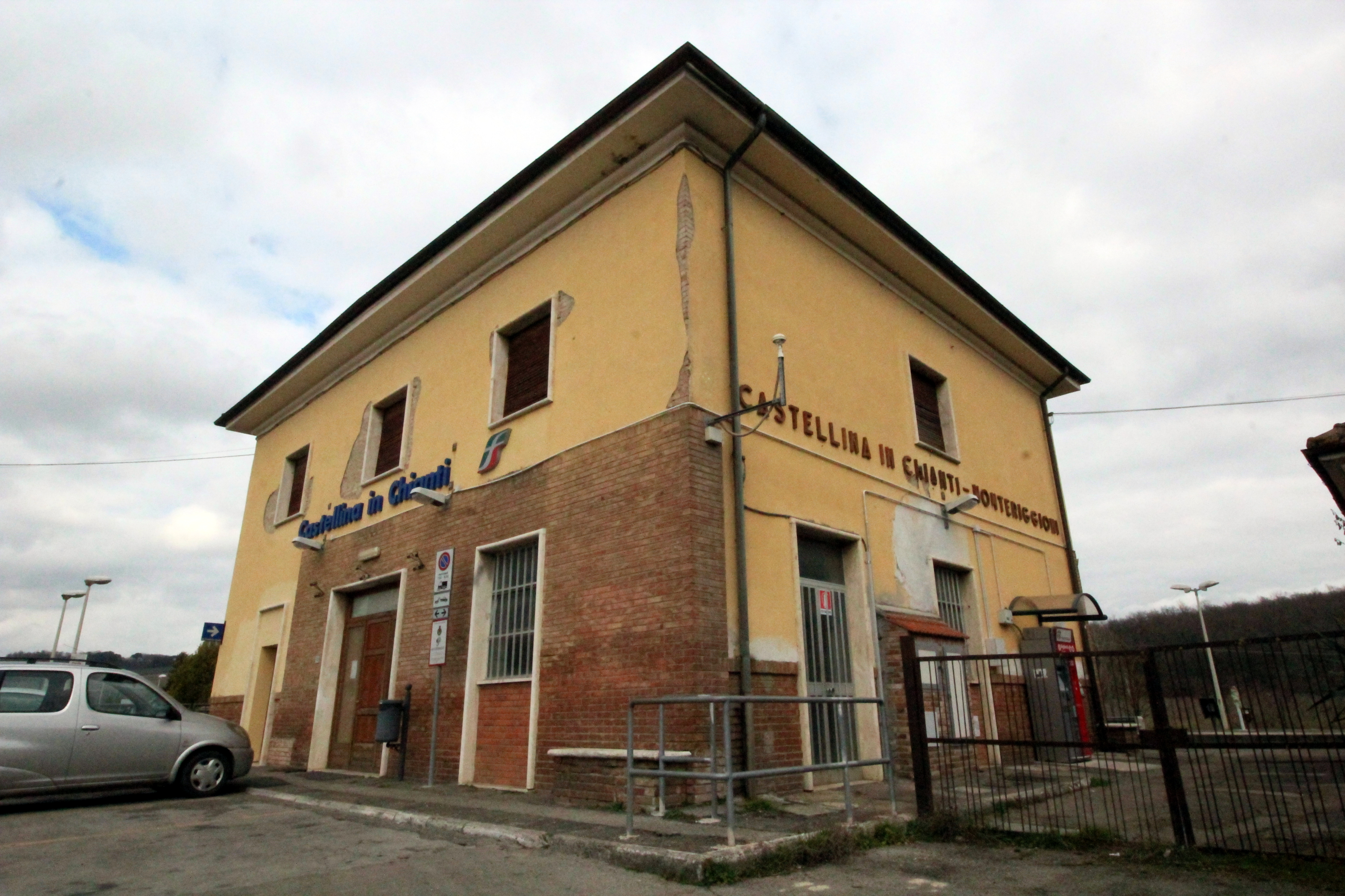 Train station of Castellina in Chianti-Monteriggioni, located in Castellina Scalo, hamlet of Monteriggioni, Province of Siena, Tuscany, Italy